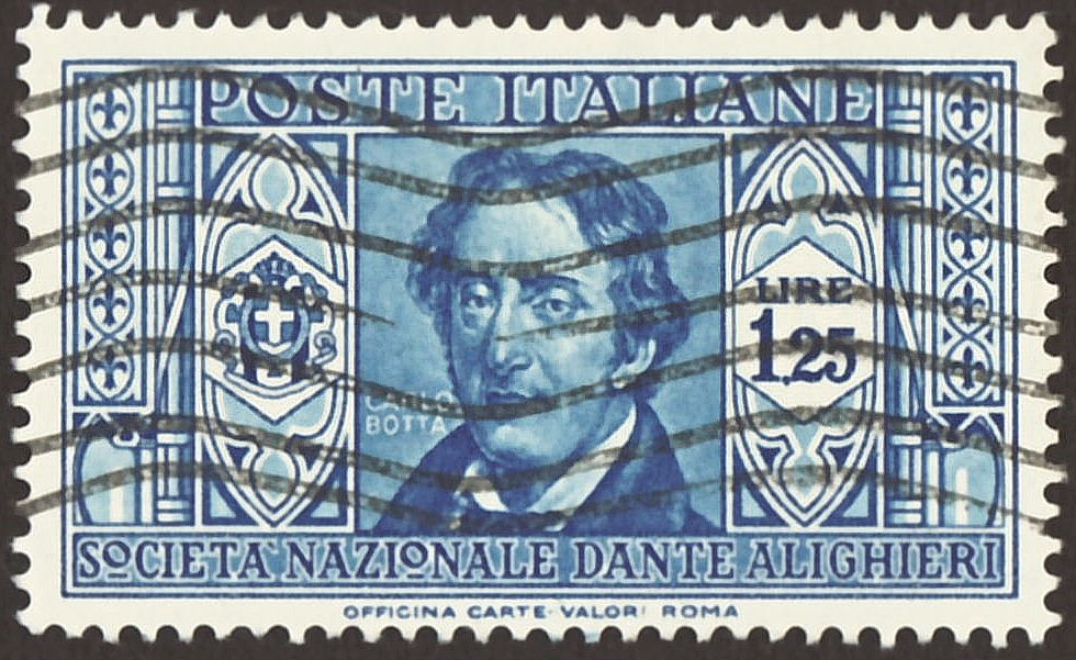 Stamp of the Kingdom of Italy; 1932; commemorative stamp of the issue for the "National Dante Alighieri Society" (Italian: "Società nazionale Dante Alighieri"); central drawing with the effigy of Carlo Botta (1766-1837); side ornaments with stylized Fascio symbols; postmarked Stamp: Michel: No. 380; Yvert & Tellier: No. 290; Scott: No. 275 Color: azure to blue Watermark: Italy No. 1 (crown) Nominal value: 1.25 Lire (₤) Postage validity: from 14 March 1932 until 31 January 1933 Stamp picture size (without below names line): 37.0 x 21.0 mm